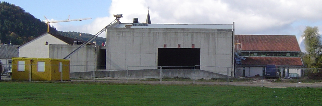 The hall of Nendingen.